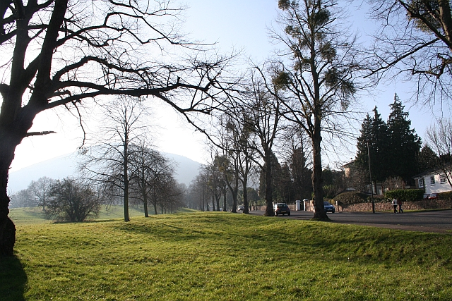 Double Row of Trees, Malvern Link Common The trees close to the Worcester Road are getting old. One shows great clusters of the parasitic mistletoe. Recently (well in the last 30 years) the Malvern Hills Conservators planned ahead and planted a second row of trees to maintain the avenue feel when the older trees are lost.